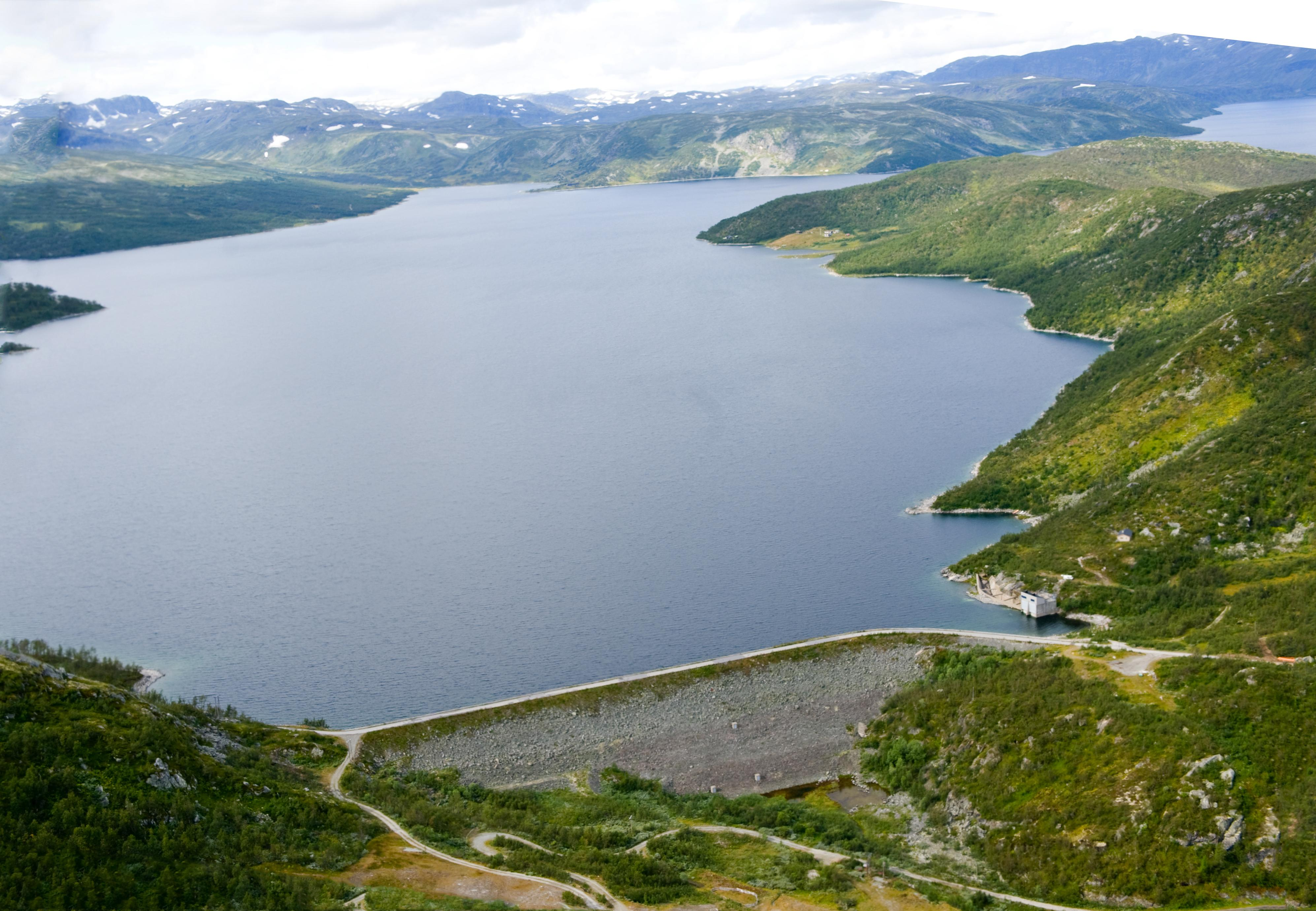 Strandavatnet is a lake in Hovet, Hol Kommune. The lake is a reservoir for the Rud hydroelectric powerstation in Hovet. In 1952/1953 a dam was constructed which lifted the lake level 28 meters, thus the lake varies between 950 and 978 m above sea level. There is a dam at Strandavatnet. In fact it was the first rock filling (embankment) dam in Norway. You can see it on your left hand side from Riksvei 50 at Myrland (the road to Raggsteindalen goes over the dam).